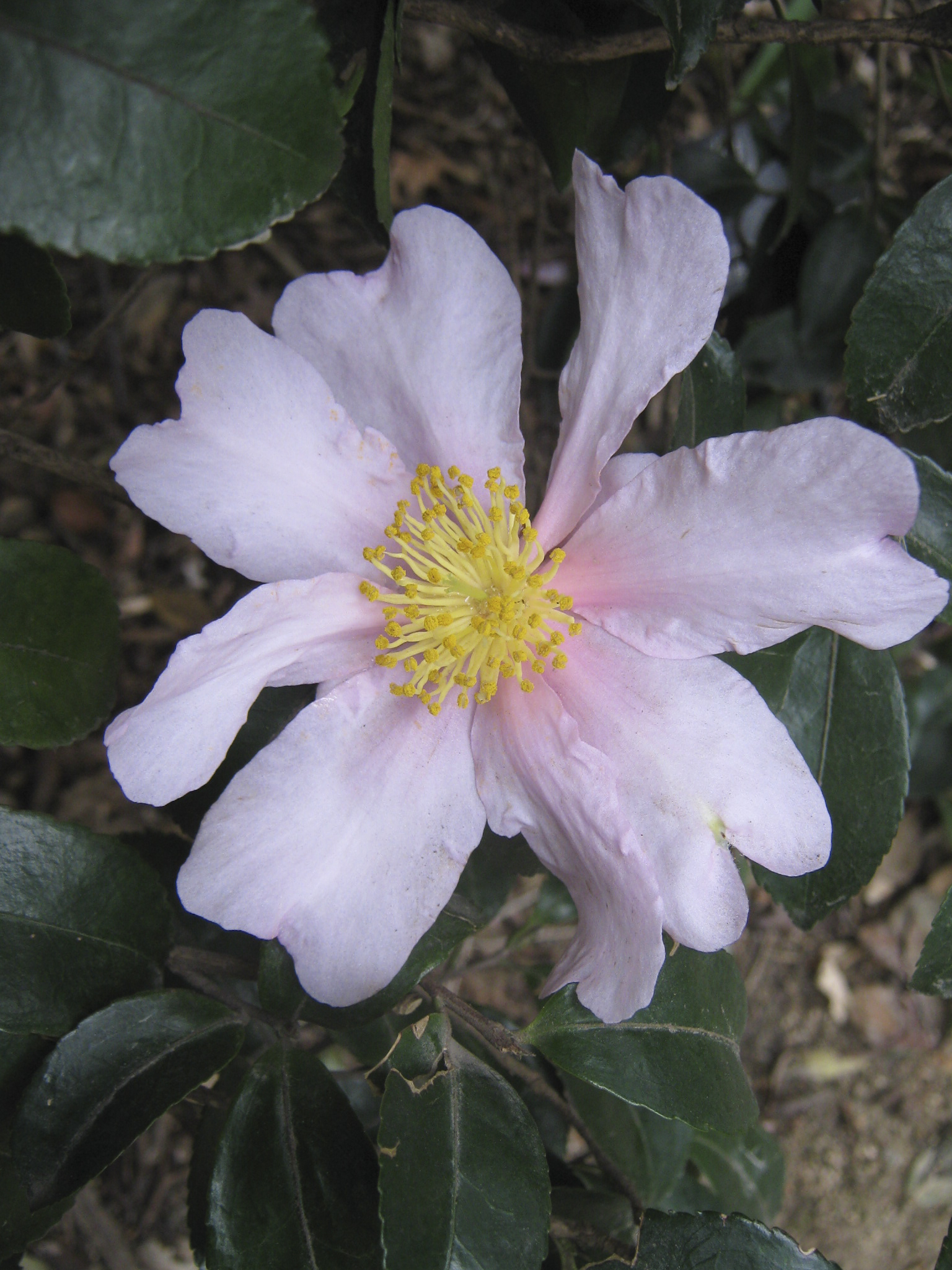 Camellia sasanqua 'Exquisite' (Waterhouse) by E.G. Waterhouse 1947; photographed in the Royal Botanic Gardens, Melbourne